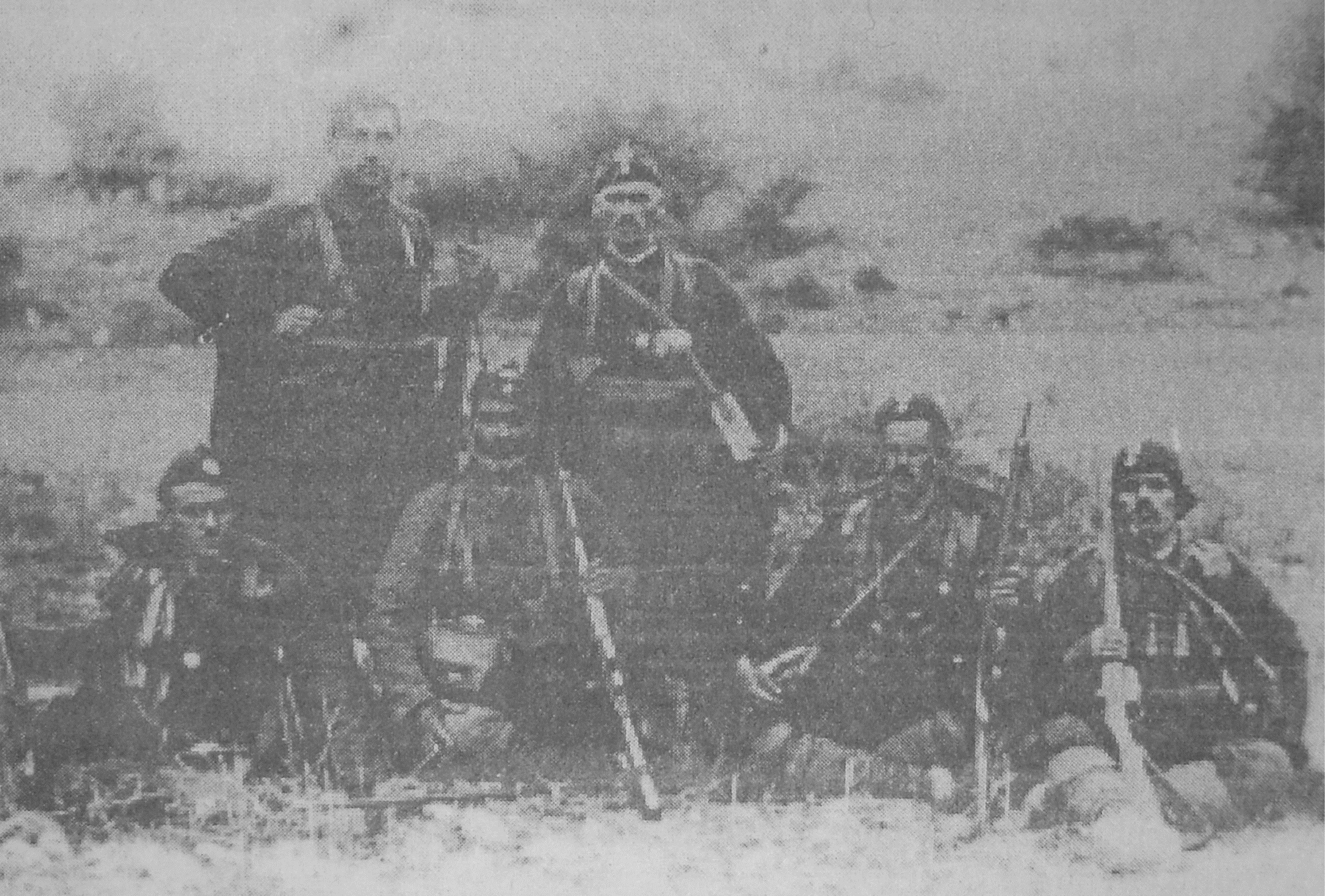 Band of Ivan Markov